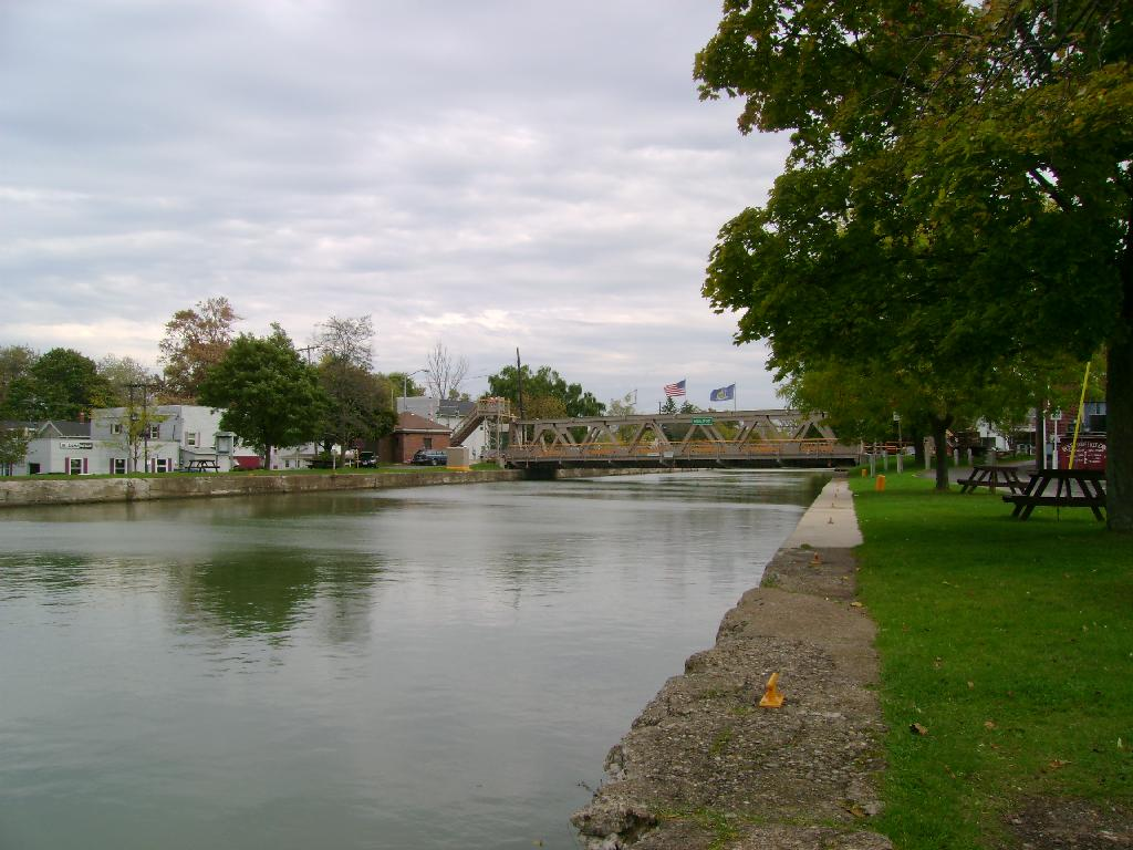 Erie Canal runs under Main Street/New York State Route 271 in Middleport. Photo by Philatio (talk). Taken 10/19/2007.